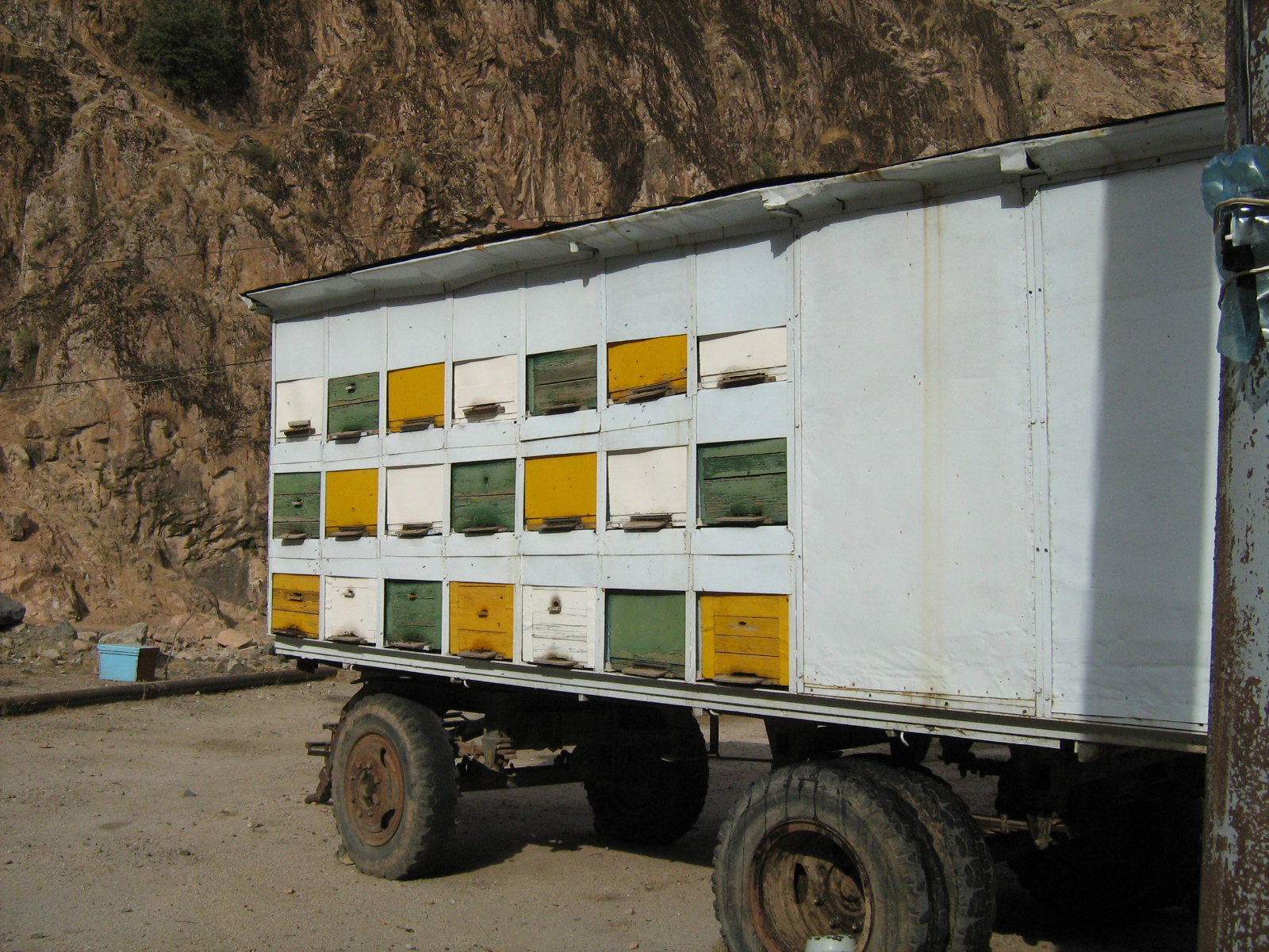 Mobile beehives in Tajikistan